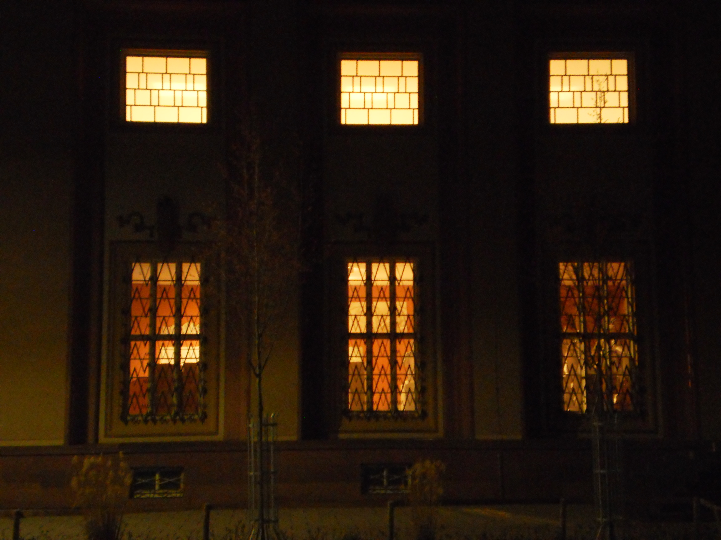 Building 'Kunstgebäude' in Marburg at night.